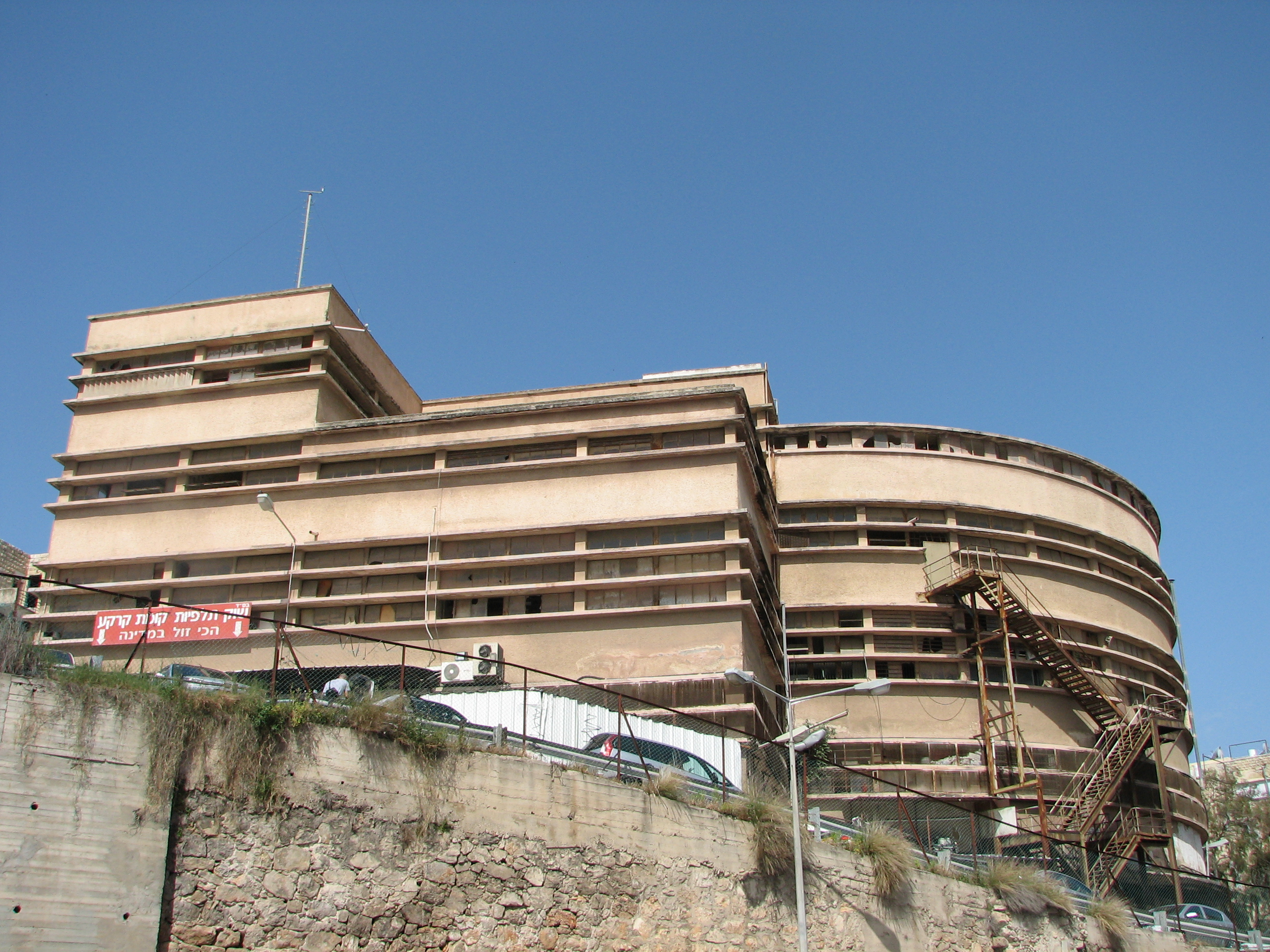 Talpiyot Market, Hadar Haifa Israel